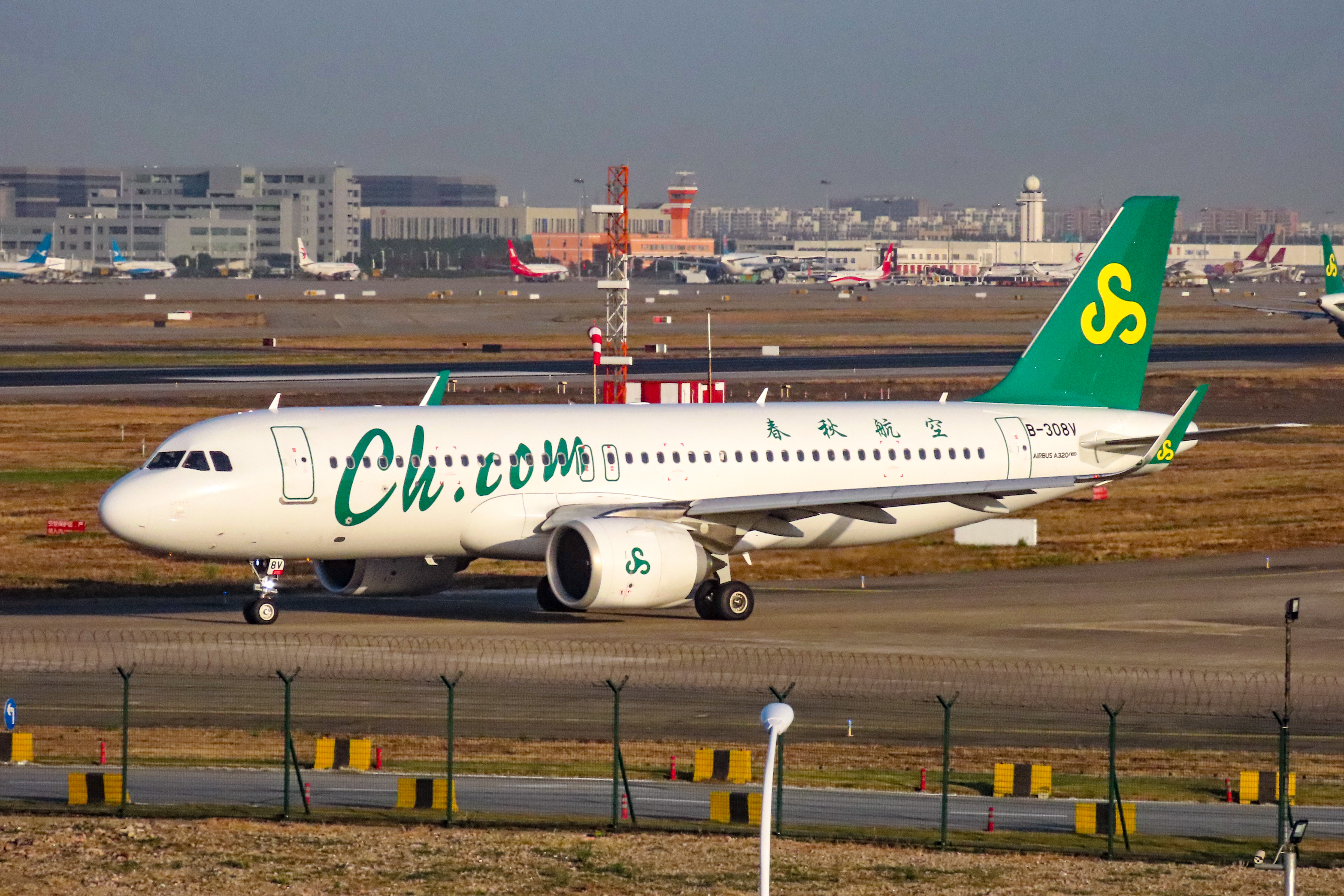 Spring Air 8835 to Guangzhou.